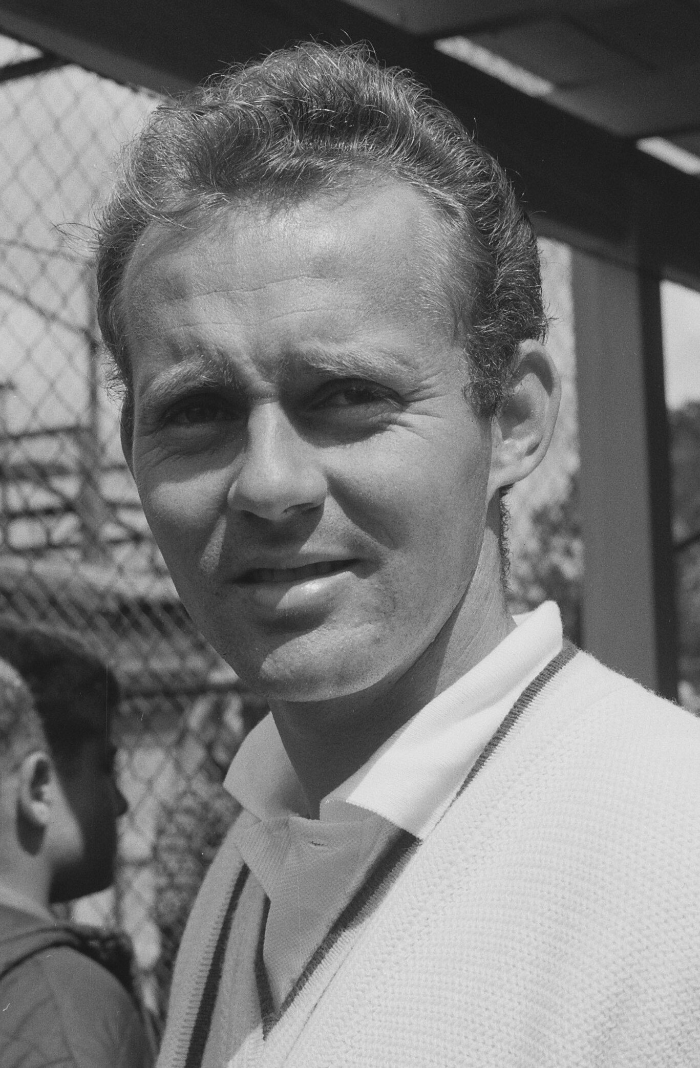 Tennis at Santpoort, Netherlands. K. N. Fletcher (Australia) match against C. Stubs (Australia)